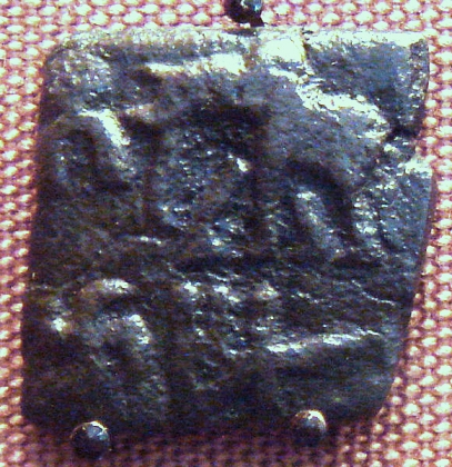 Mauryan Cast Copper Coin Late 3rd Century BCE